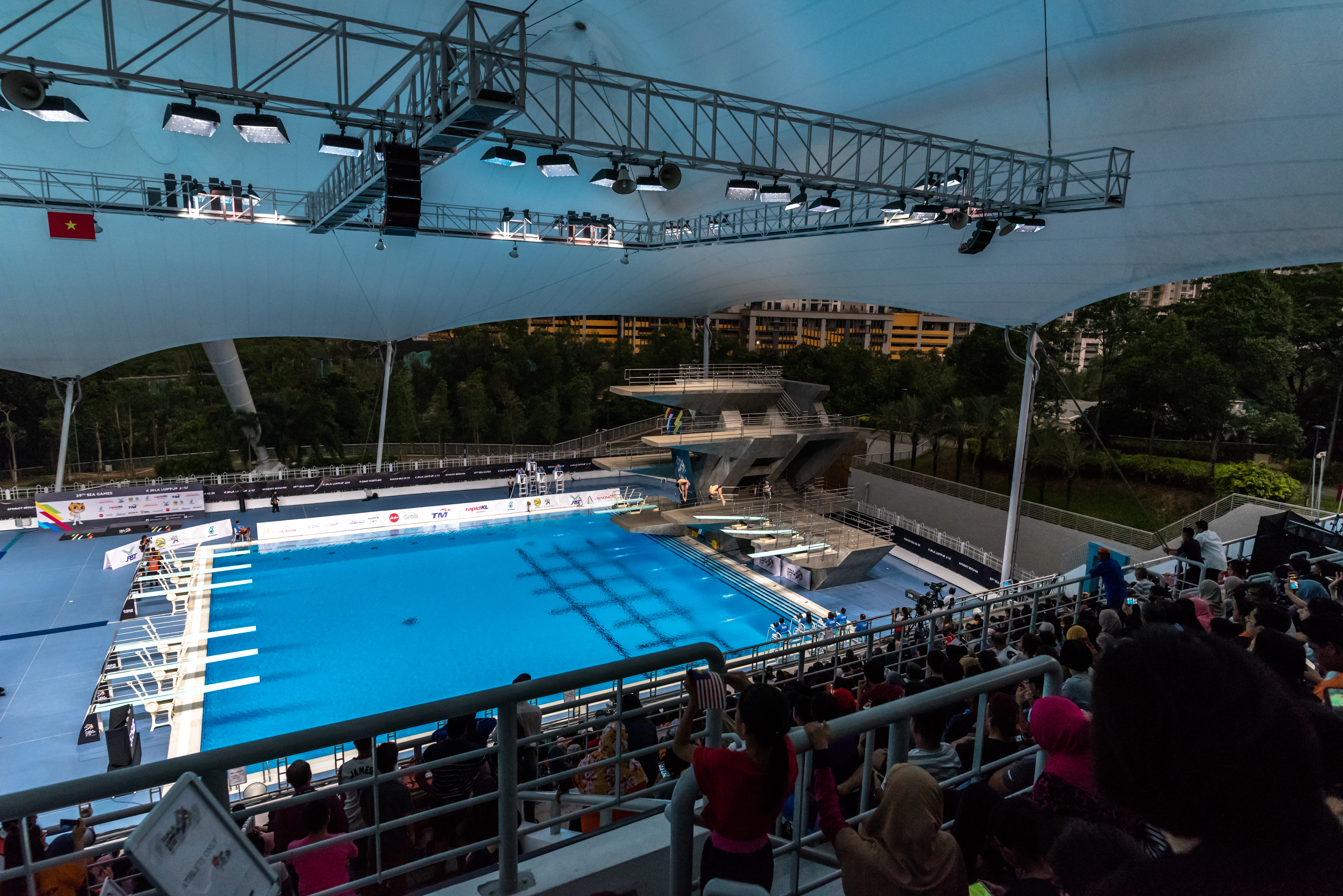 National Aquatic Centre at KL Sports City